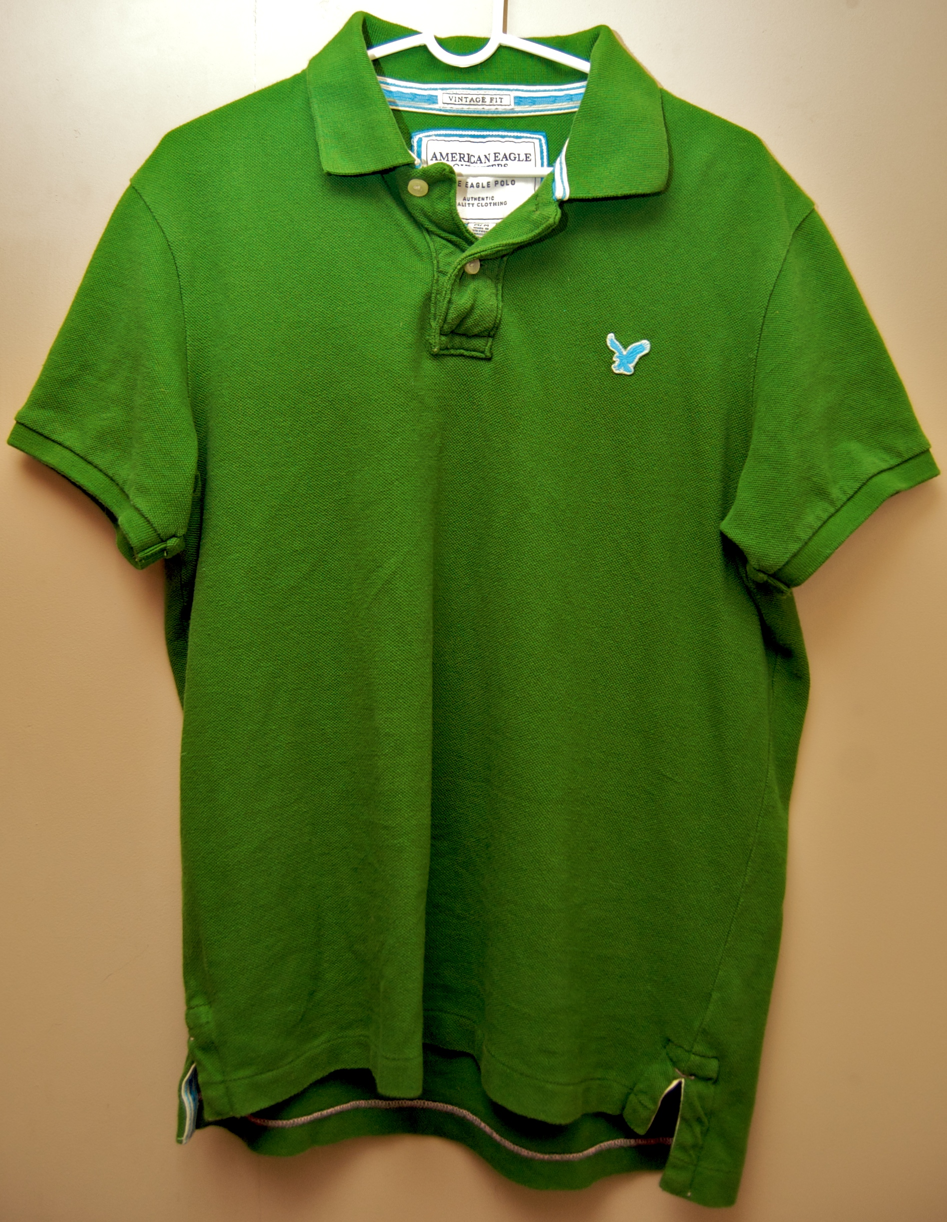 Simple photograph of an American Eagle polo (The Eagle Polo; Vintage fit).